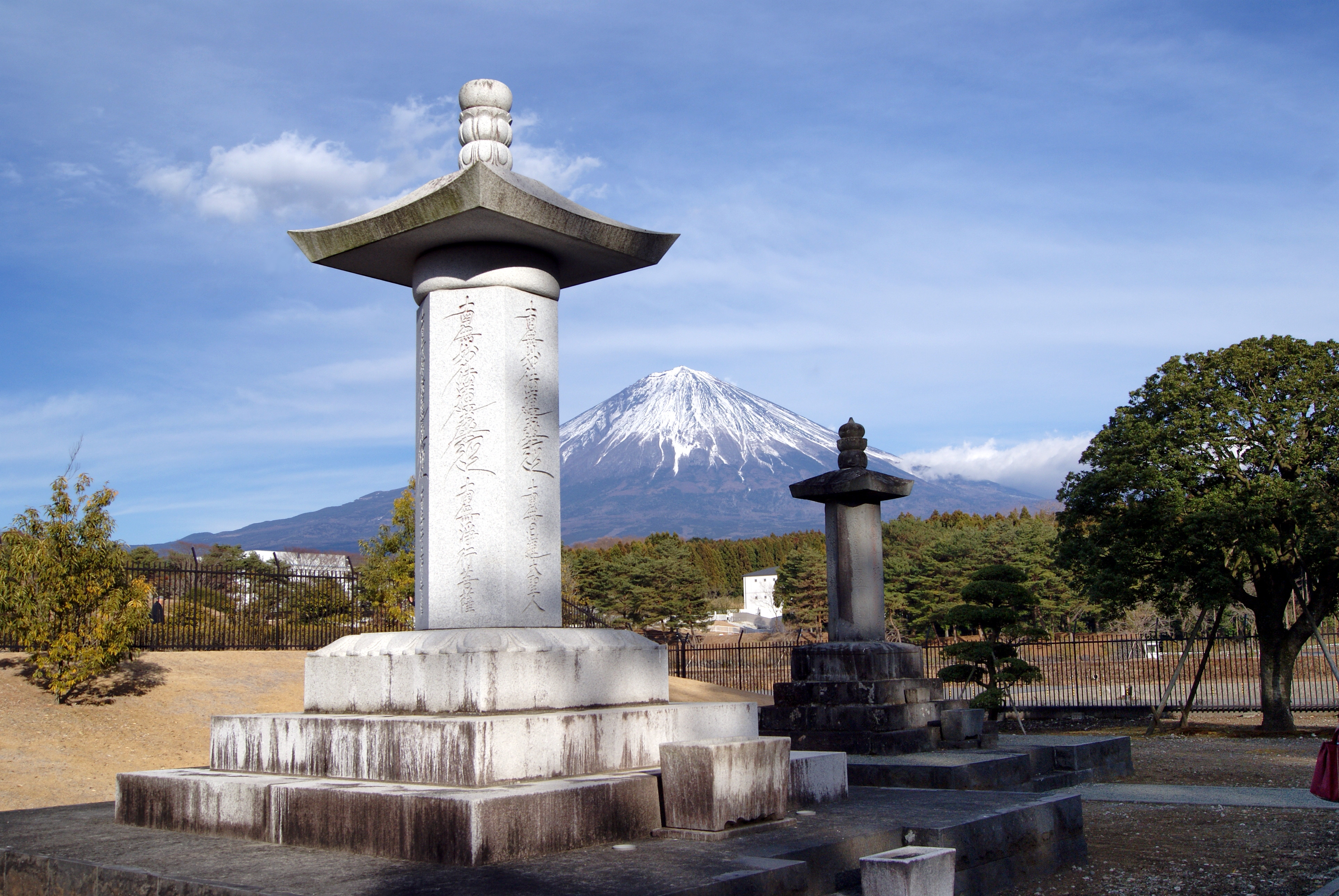 New and Old Rokuman-Tō of Taiseki-ji.